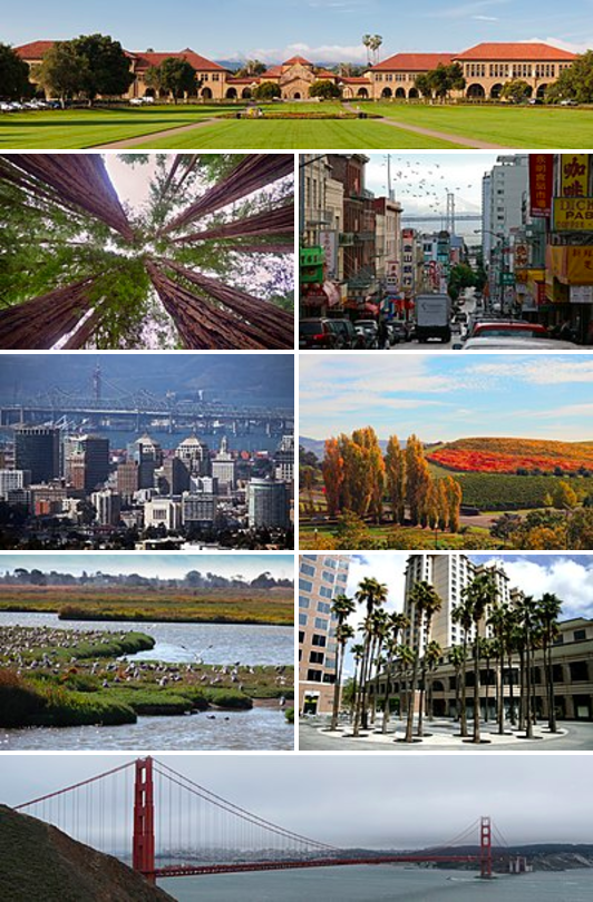 A montage for the infobox of the San Francisco Bay Area article